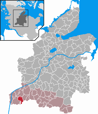 Locator maps of municipalities in Schleswig-Holstein - District Rendsburg-Eckernförde